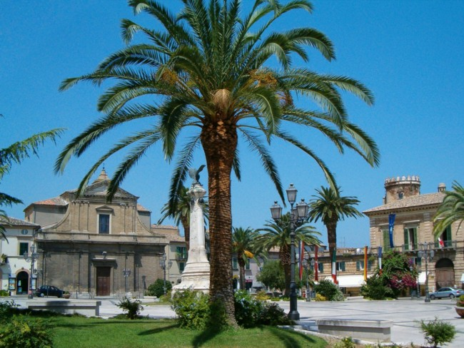 Vasto, Piazza Rossetti Picture taken by user:Idéfix, july 2005